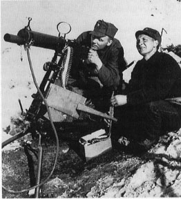 Norwegian Army soldiers operating a Colt M/29 heavy machine gun on the front-line north of Narvik